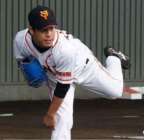 Giants_takagi